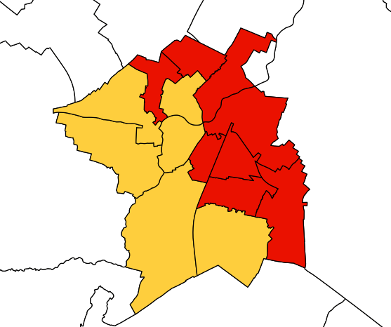 Graphical representation of the electoral boundary for the purposes of illustrating the result in the Cambridge City Council elections 2011